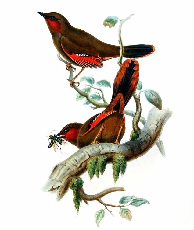 Red-faced Liocichla (Liocichla phoenicea)